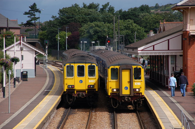 Whitehead railway station. This station was opened in 1877 and was the third station to serve the town. It has been modernised but still retains its Victorian feel. This is the view towards Larne with the 10.35 from Belfast Central on the left and the 10.55 from Larne Harbour on the right.